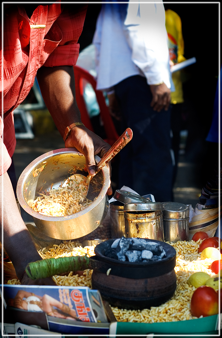 A streetside vendor preparing Bhel Puri Chaat. 'Chaats' are very popular snacks all over India. Made spicy, tangy, tasty, it is hard not to like!